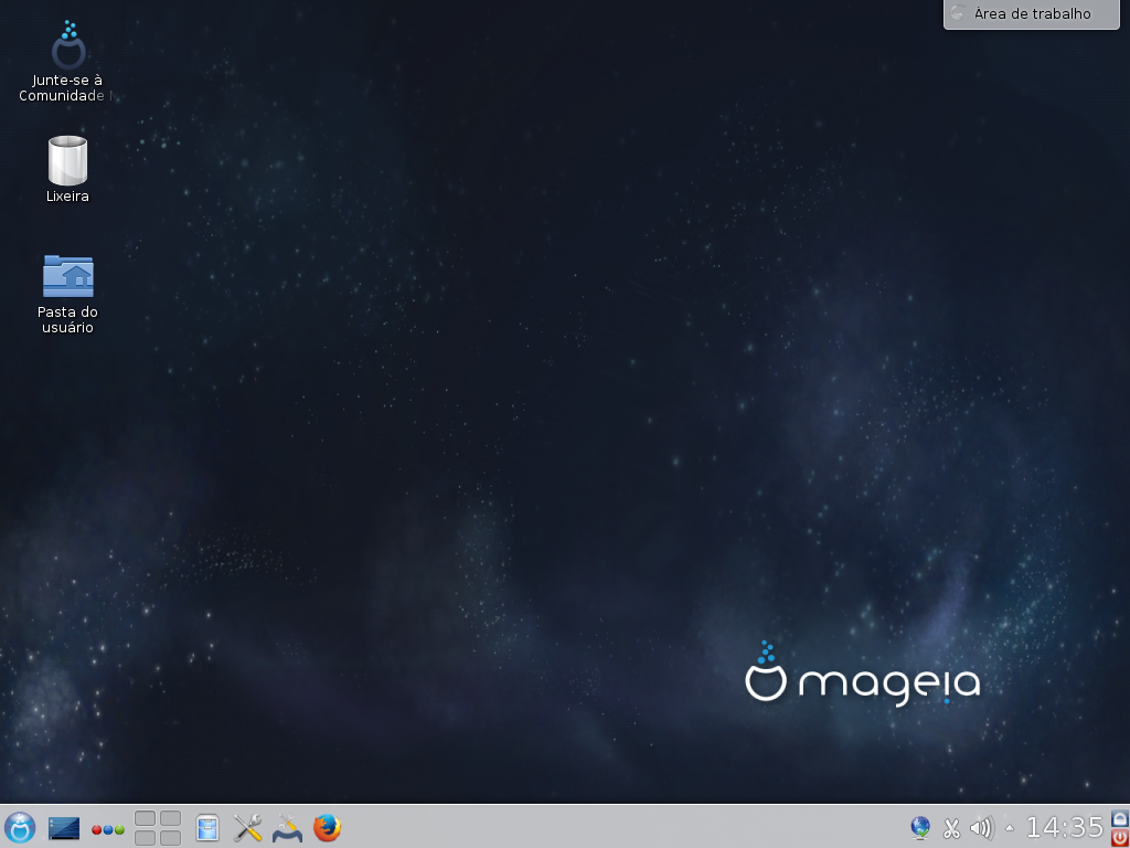 Mageia 5 Kde